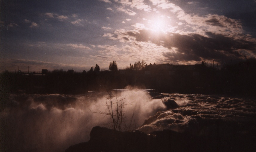 This picture is from myself (Mathieu Pelletier) and may be reproduced without asking for permission or paying a copyright royalty.